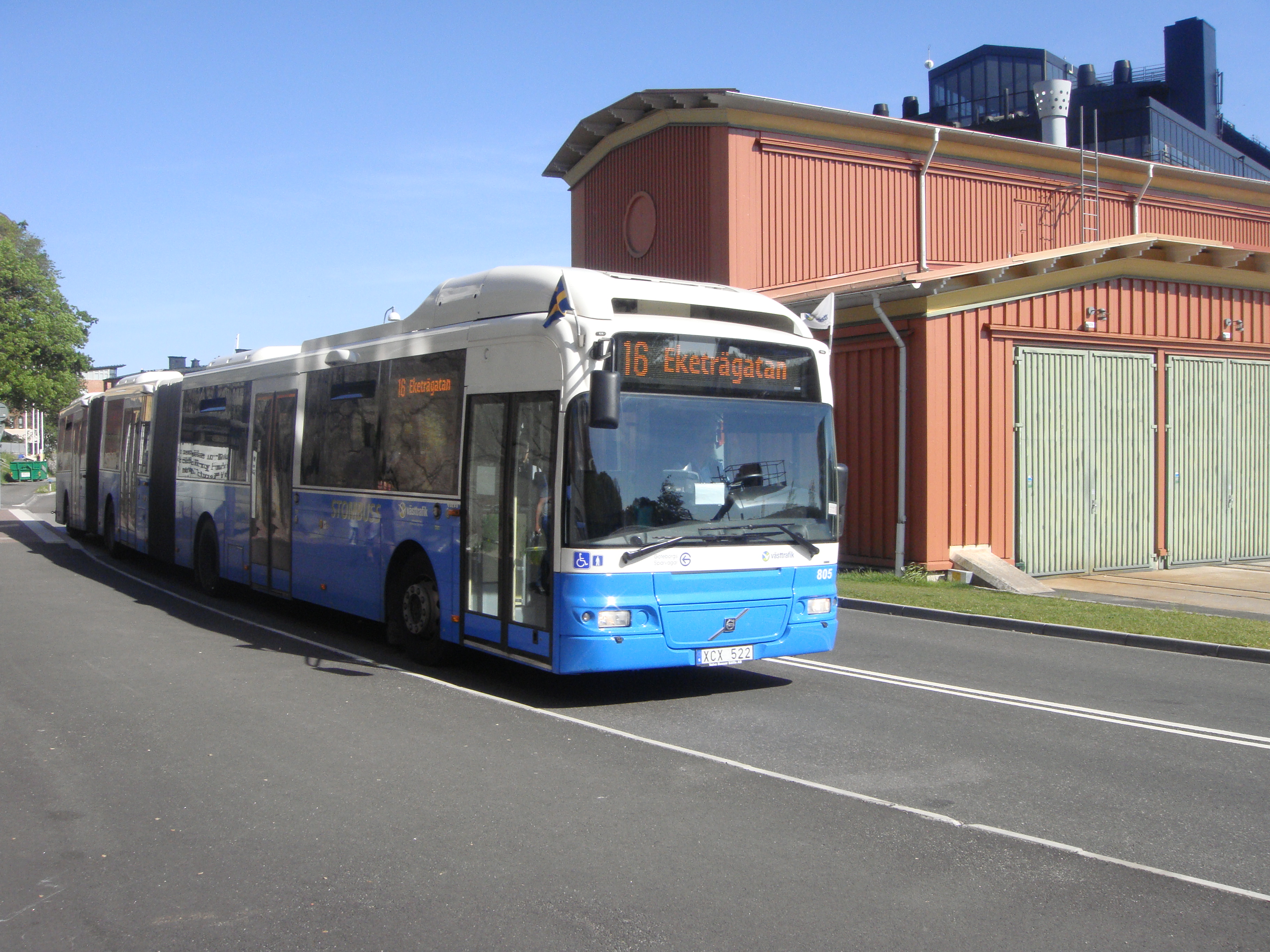 Stombus 16 close to Eriksberg, Gothenburg, Sweden. Volvo 7500 Bi-articulated bus (reg. XCX 522, #805), built 2007.